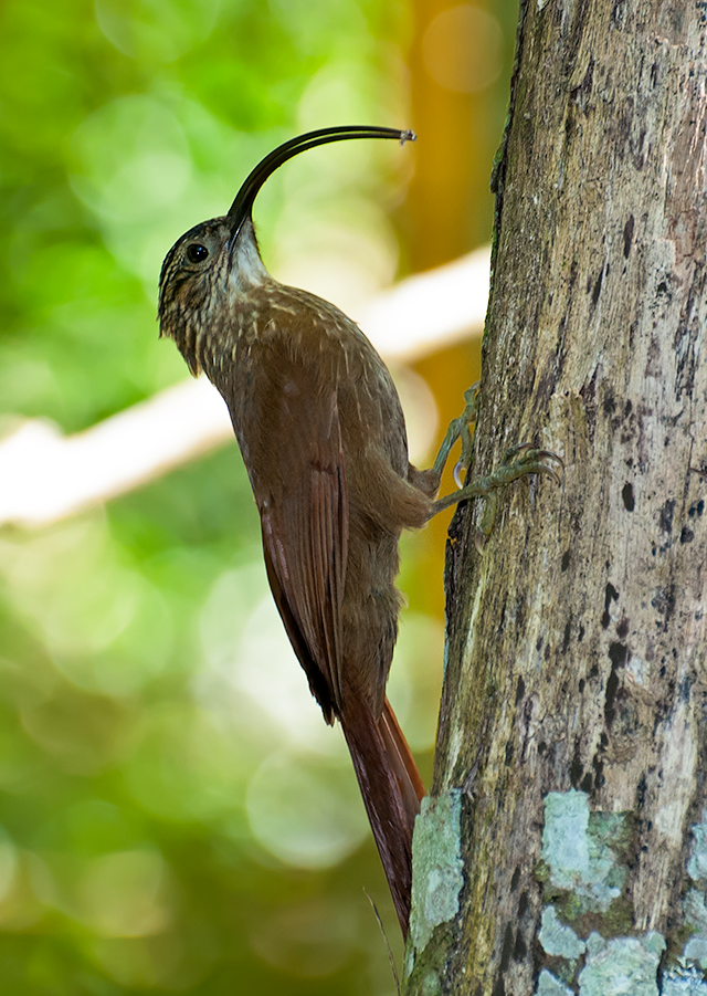 A Black-billed Scythebill in Piraju, São Paulo, Brazil.